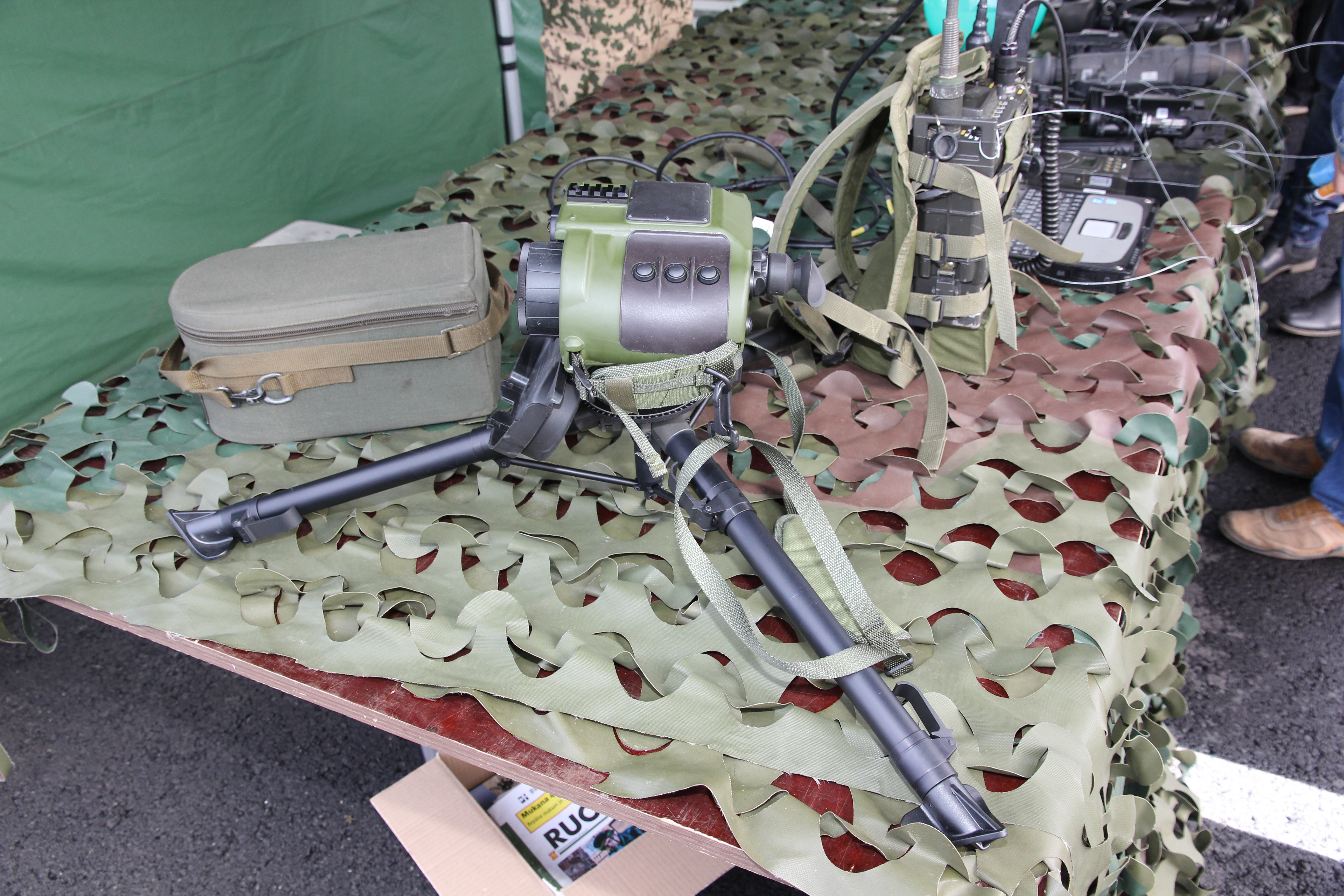 Finnish military Millog LISA target acquisition system on display at Comprehensive security exhibition 2015 in Tampere.